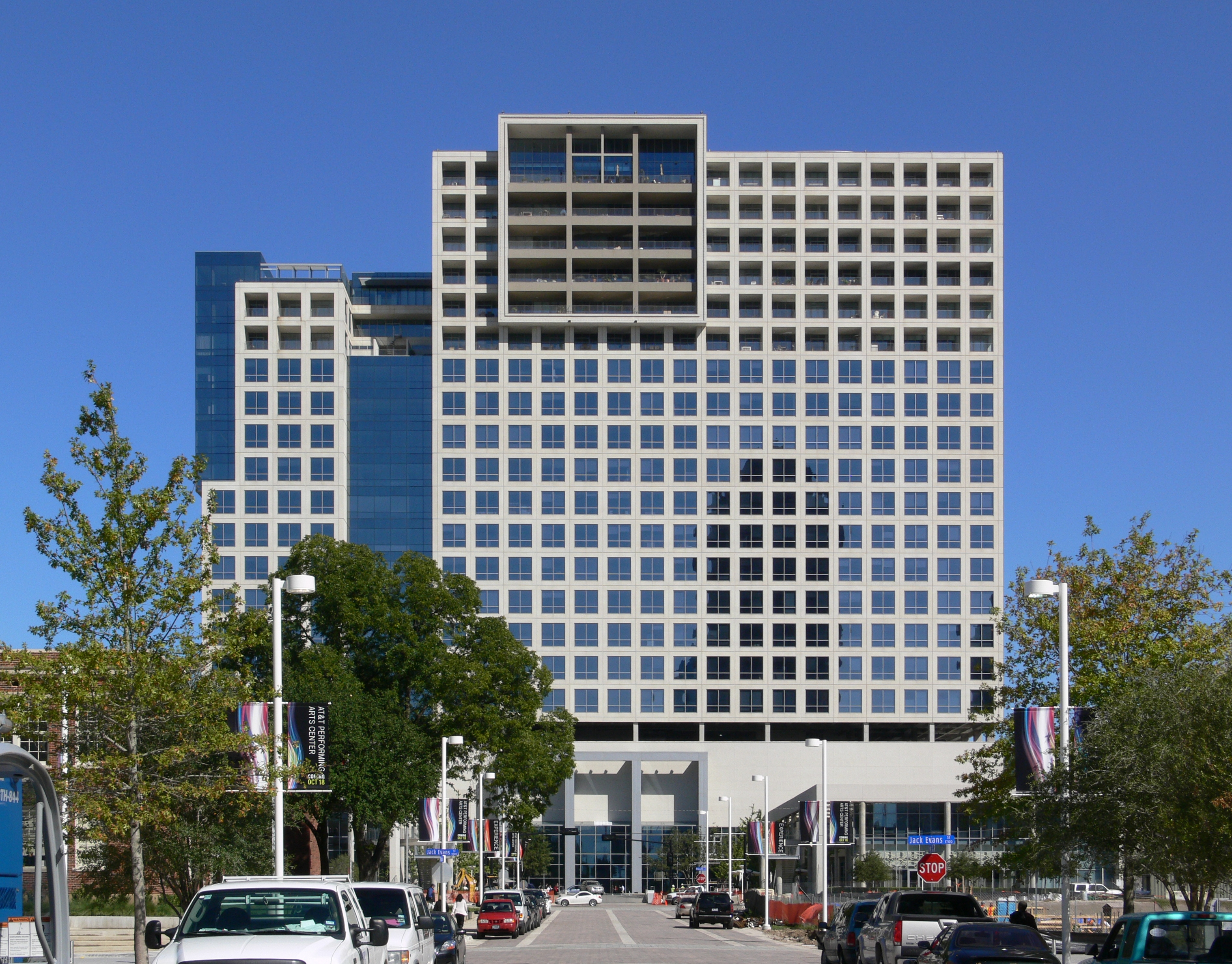 One Arts Plaza, Dallas, Texas - It has the U.S. headquarters of 7-Eleven